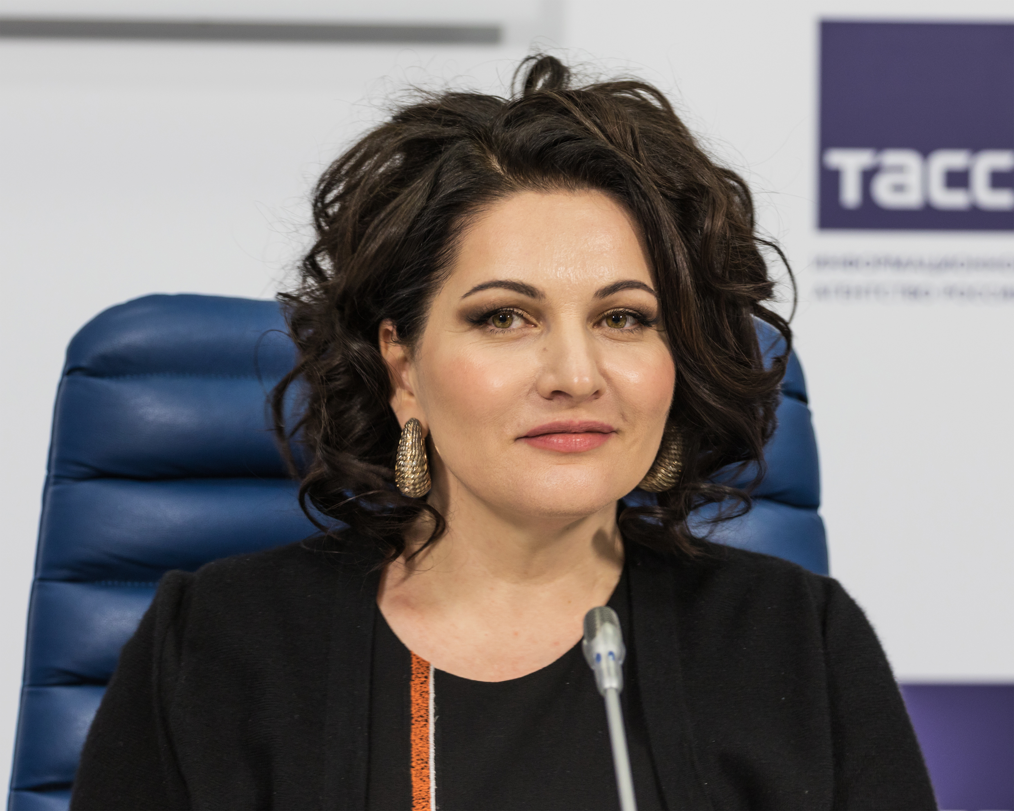 Hibla Gerzmava (b. 1970) is a Russian and Abkhazian opera singer.